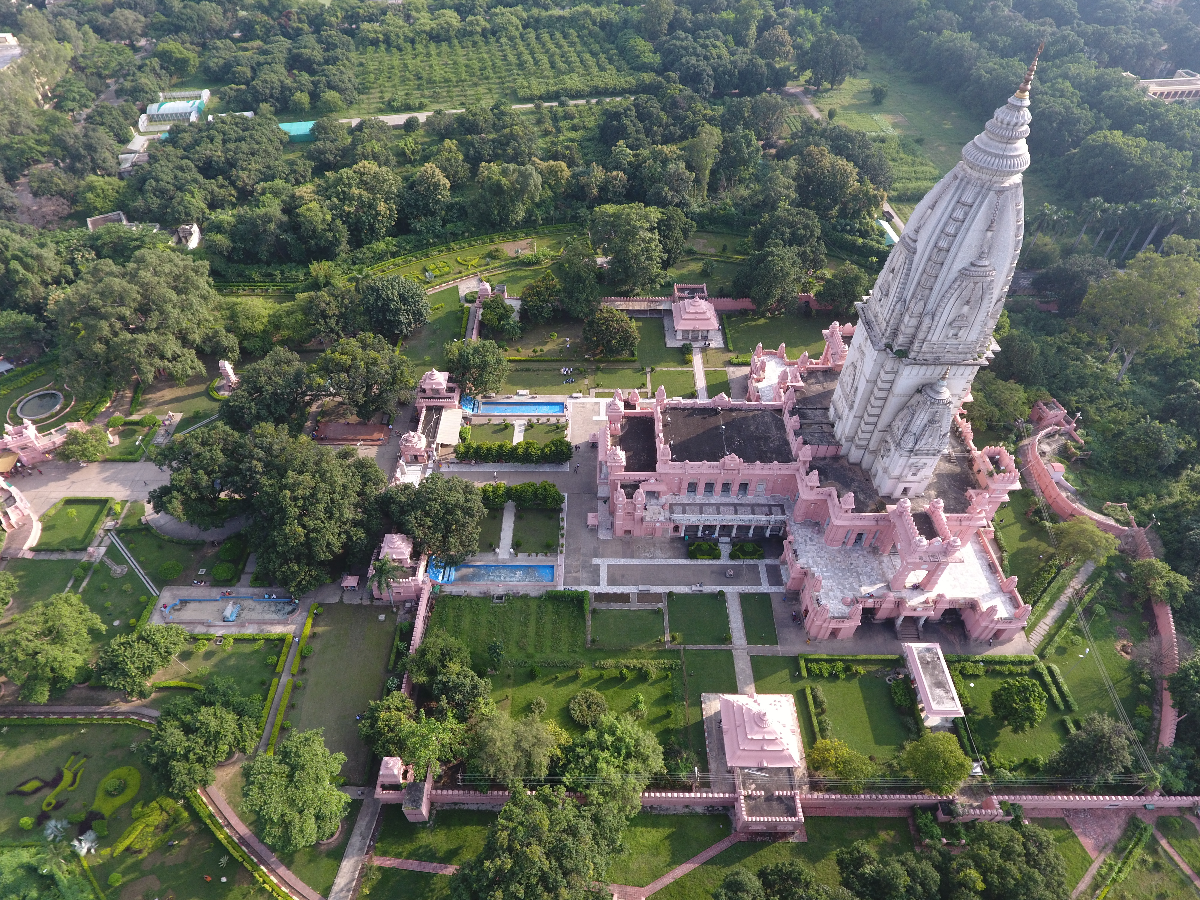 Vishwanath Temple, BHU, Varanasi